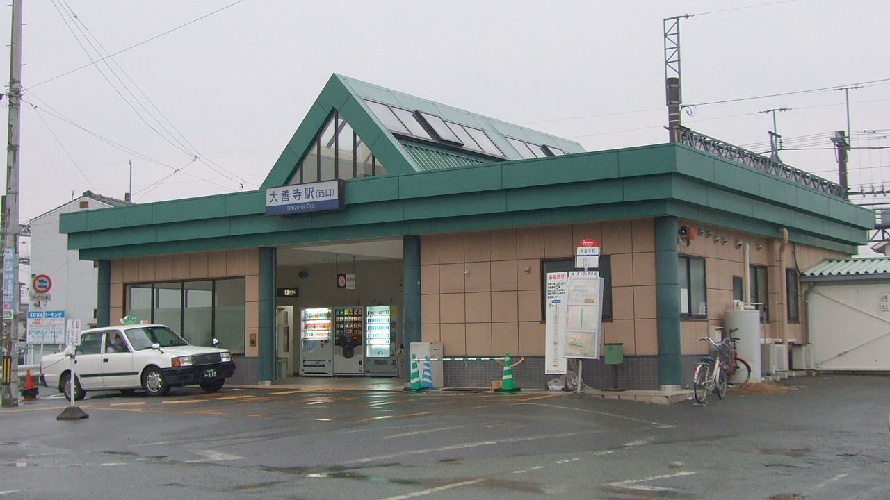 Daizenji Station, Nishitetsu Tenjin Omuta Line.